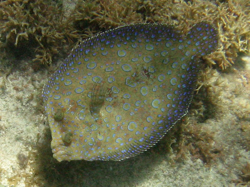 Plate fish (Bothus lunatus) near Protestant Cay, Christiansted, St. Croix, US Virgin Islands